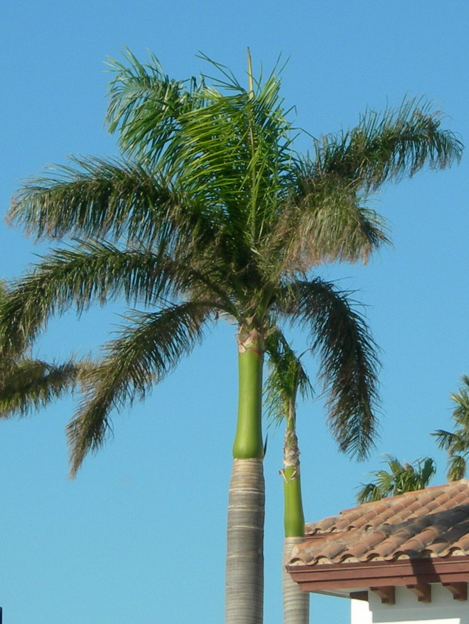 Royal palm (Roystonea regia) tree taken by Daniel R. Tobias on December 4, 2005 in Boca Raton, Florida.